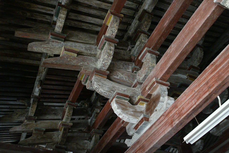 Dougong timber framing brackets — in Yuanmiao Guan on Meizhou island, in Fujian Province, SE China. 更多haier7917的中国古建照片/ more photos of ancient chinese architecture by haier7917：